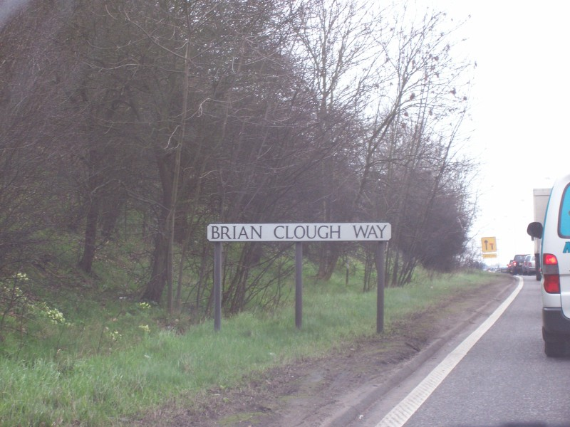 Sign reading "Brian Clough Way" along the A52 road, between The Pentagon, Derby and Queen's Medical Centre, Nottingham; that part of the road is also known by that name in honour of the former Derby County F.C. and Nottingham Forest F.C. manager.